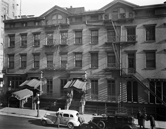 Lafayette Hotel, University Place and 9th Street, New York City